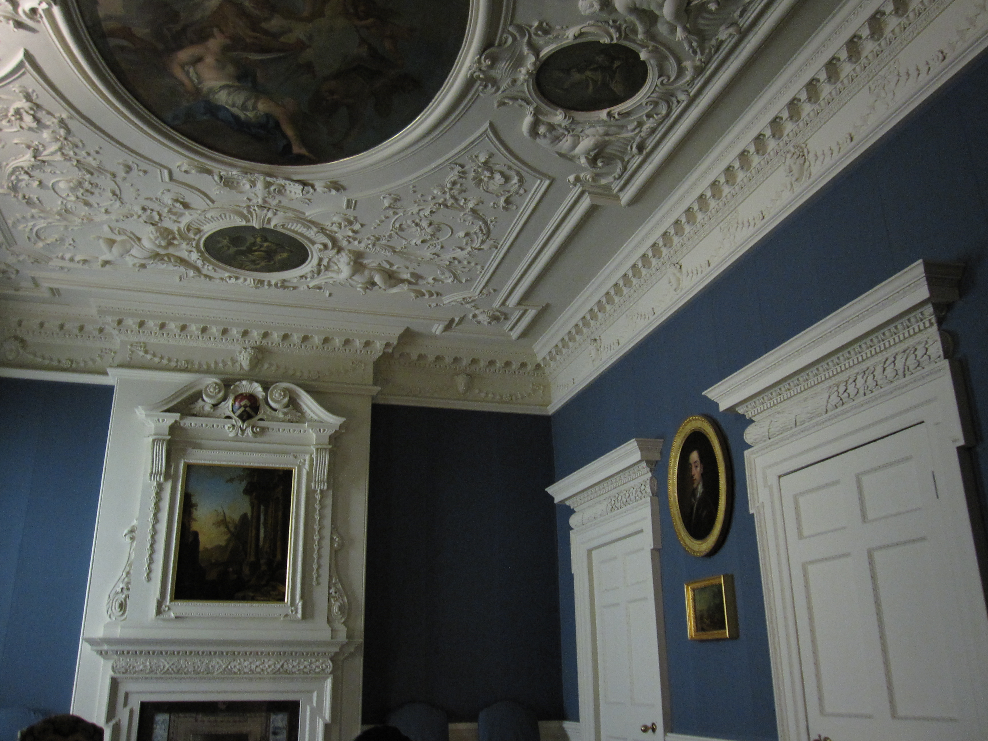 The parlour from 2 Henrietta Street, London (1727-1728). This room was the main entertaining room on the first floor of a London house designed by the architect James Gibbs (1682-1754). He bought the houses of fours plots in the new street using one for his own house and three, including number 2, for houses for renting. Although the exterior of the house was plain, the ceiling of this room was elaborately decorated. The main panels may be by the Italian-born painter Vincenzo Damini, the plaster decoration by the Swiss-born plasterworkers who frequently worked with Gibbs. Victoria and Albert Museum